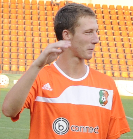 Anton Nedyalkov Players of PFC Litex Lovech